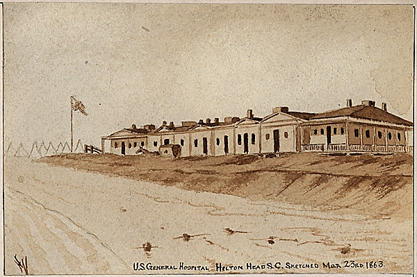 U.S. General Hospital, Hilton Head Island, South Carolina, United States.